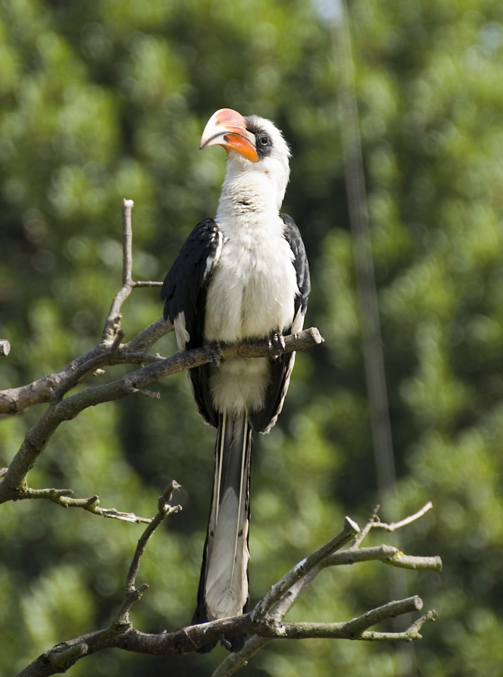 Von der Decken's Hornbill (Tockus deckeni). A male at London Zoo.